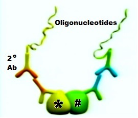 Proximity Ligation Assay: Step2